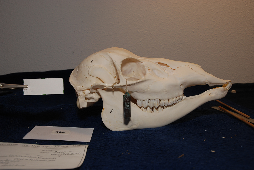 Skull of Brow-antlered Deer, Cervus eldii. Natural History Museum Leiden.